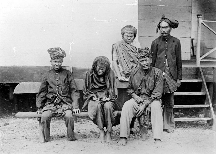 Reproduction negative(?). Cut Nyak Dhien (1848-1908) was the wife of Teuku Umar (1840-1899). After his death, she continued the struggle against the Dutch in Aceh, was taken prisoner in 1905 and died in exile in Sumedang. Group portrait with Cut Nyak Dhien after she was taken prisoner.